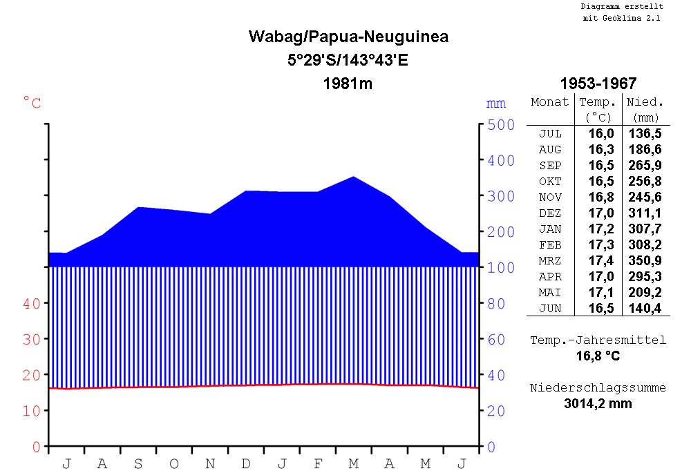 climate chart of Wabag, Papua New Guinea, for the period of time from 1953 to 1967, in the format by Walter and Lieth, metric, °Celsius and millimeters, chart made with Geoklima 2.1, label in German